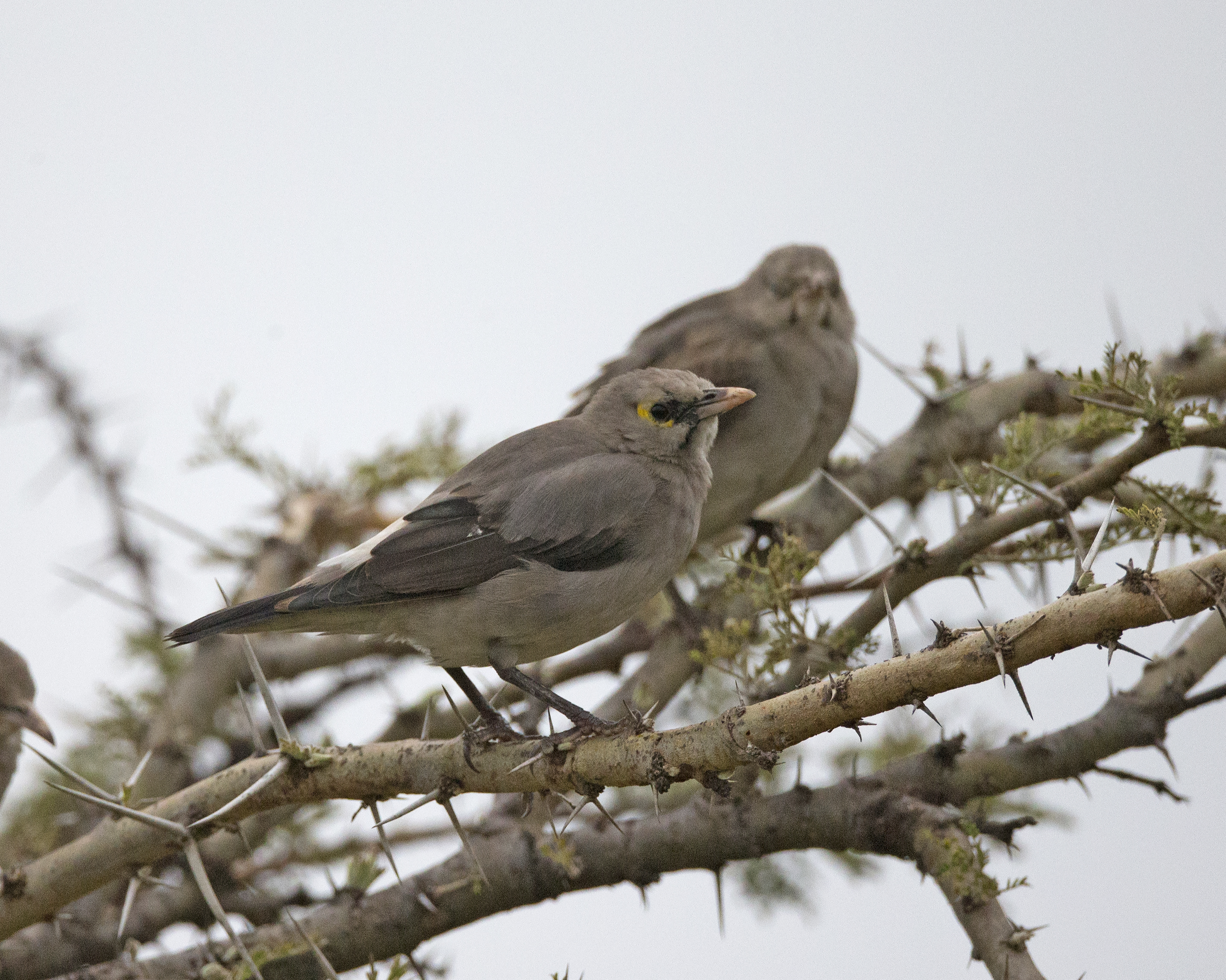 Wattled Starling (Creatophora cinerea) Masai Mara, Kenya 7 September 2013